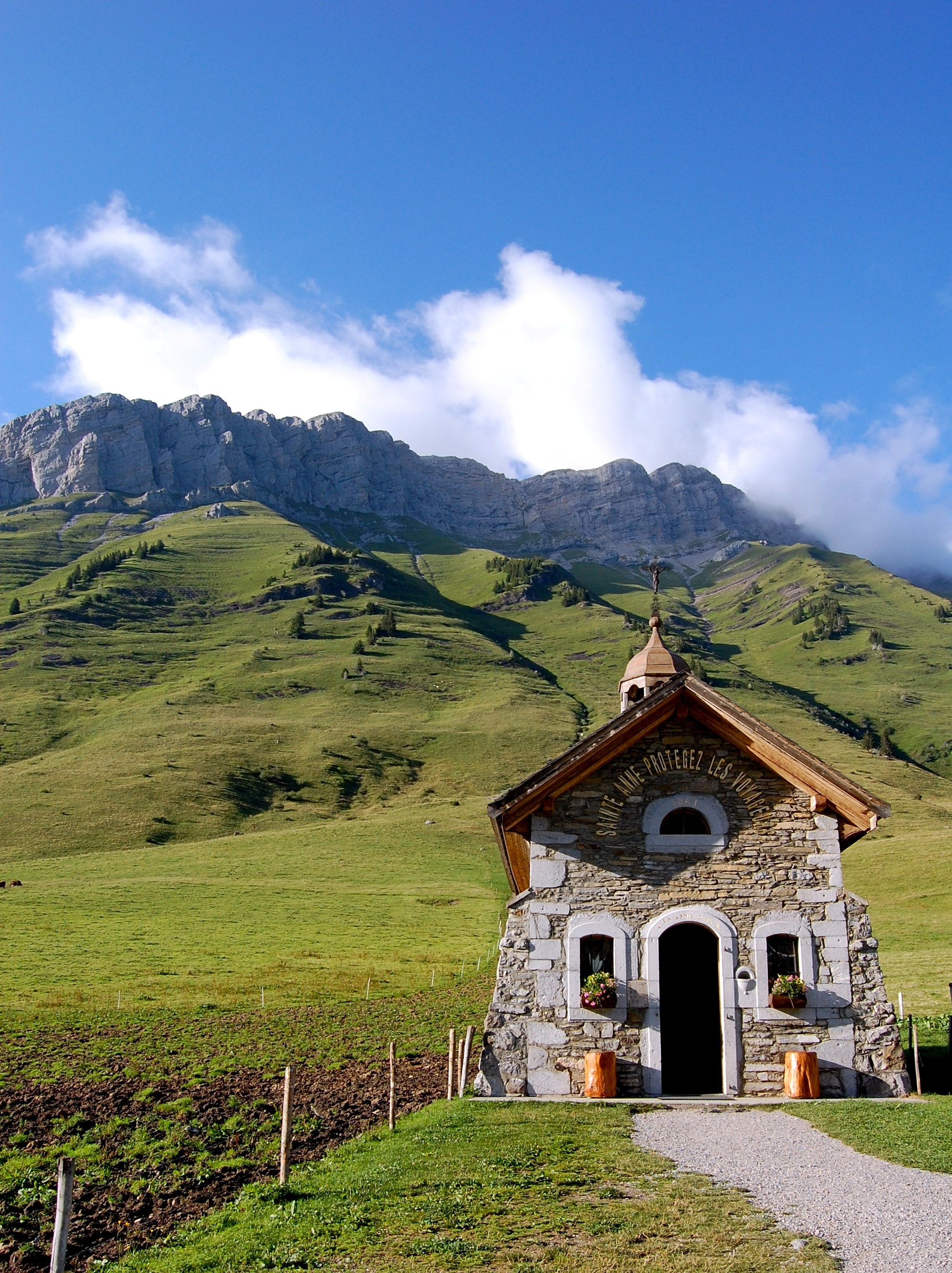 Chapel at the summit of Col des Aravis, French Alps